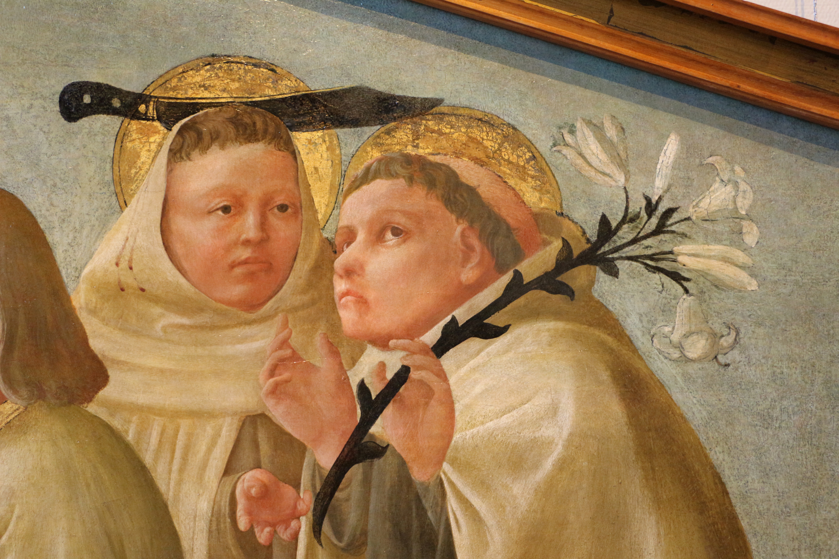 Pinacoteca del Castello Sforzesco